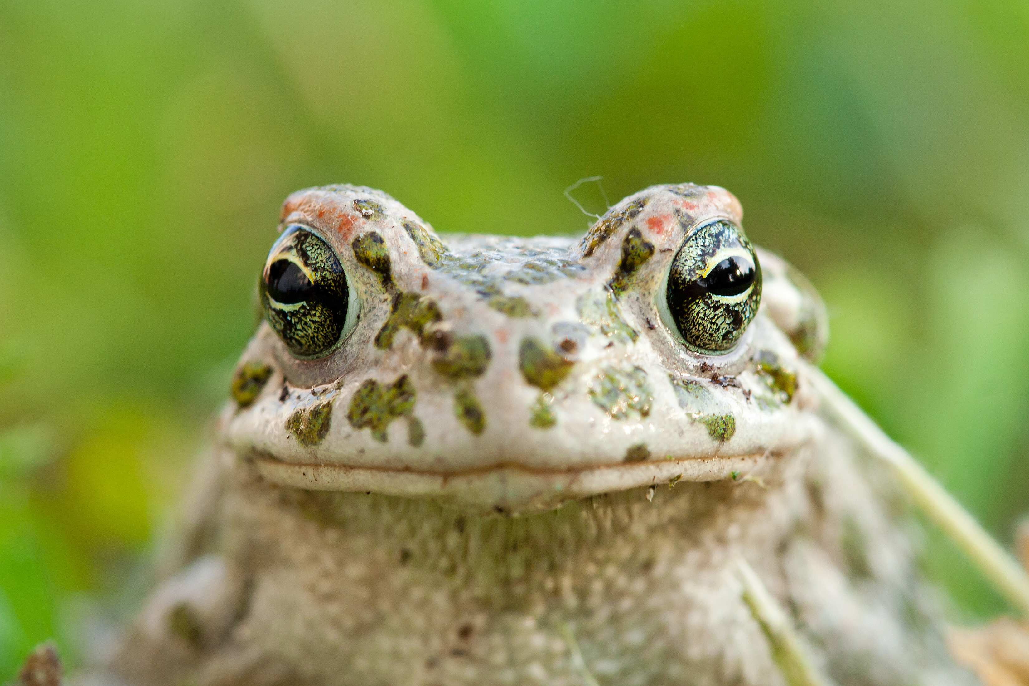 Green toad in Arzergrande, Veneto, Italy, which is around the distribution contact zone between Bufotes viridis and B. balearicus. It's the same subject of this picture (Bufo viridis). Quite friendly! View Large On Black